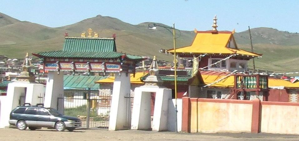 Dashchoinkhorlon Monastery, town of Zuunmod, Mongolia